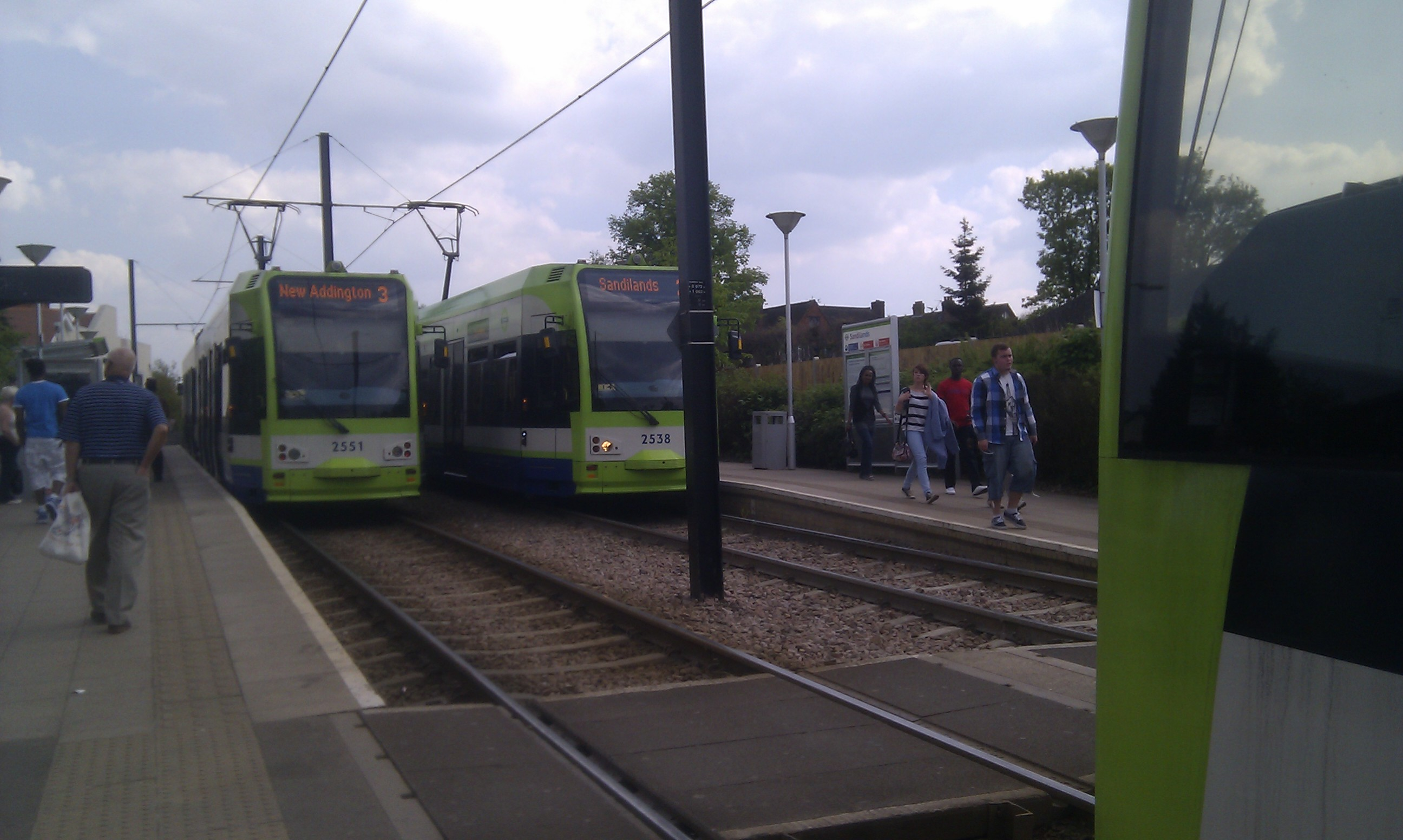 Trams wait at Sandilands during a blockade of the line which saw suspension of service between here and East Croydon.